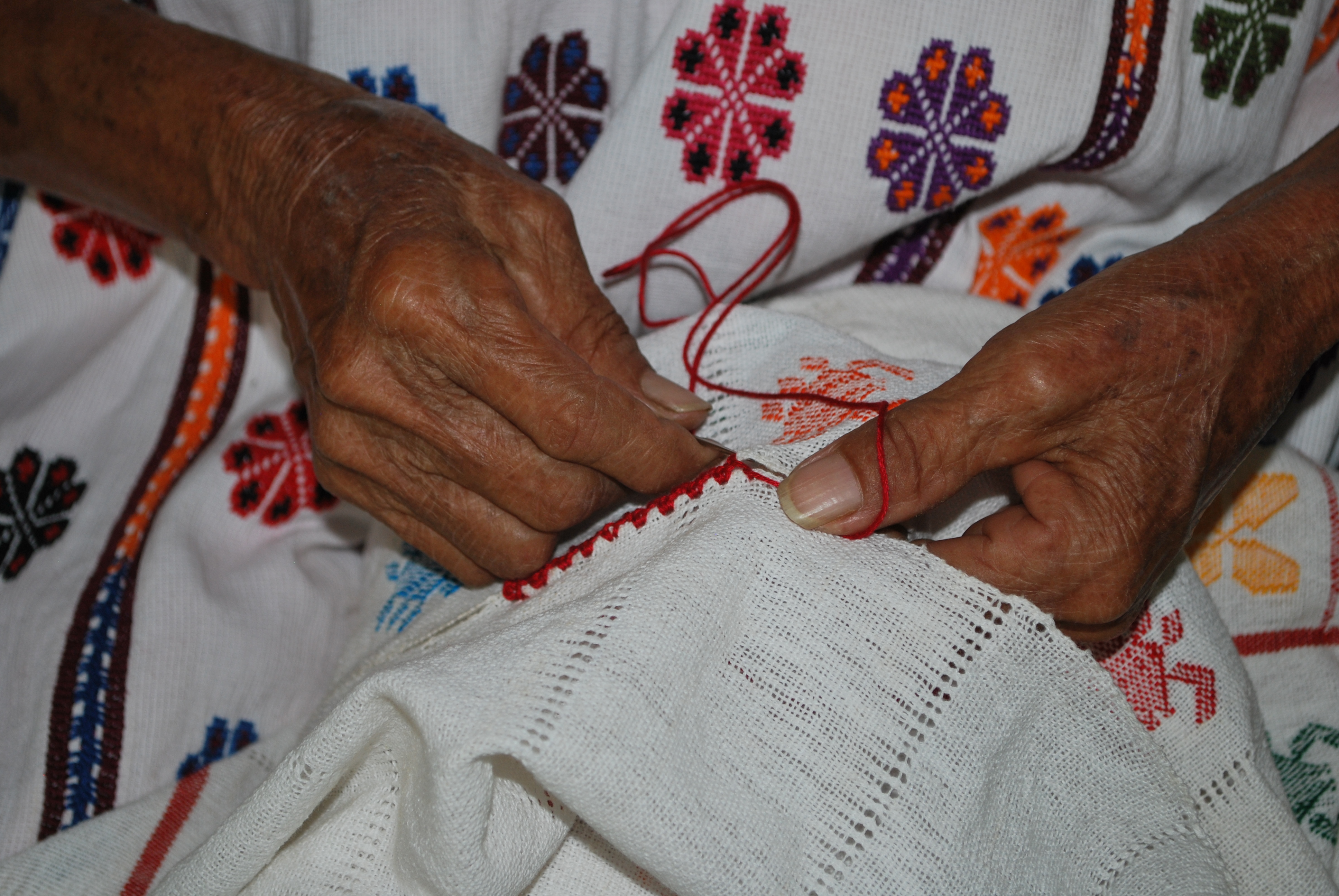 Joining edges of woven cloth together to make a huipil in Xochistlahuaca, Guerrero